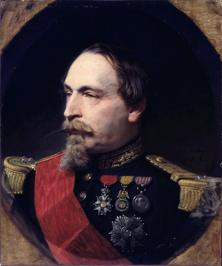 Yvon served as the principal battle-painter of France's Second Empire (1852-70), executing a number of monumental canvases for the palace at Versailles. The French emperor is shown in his prime, two years before the defeat of his forces in the Franco-Prussian War (1870-1871).